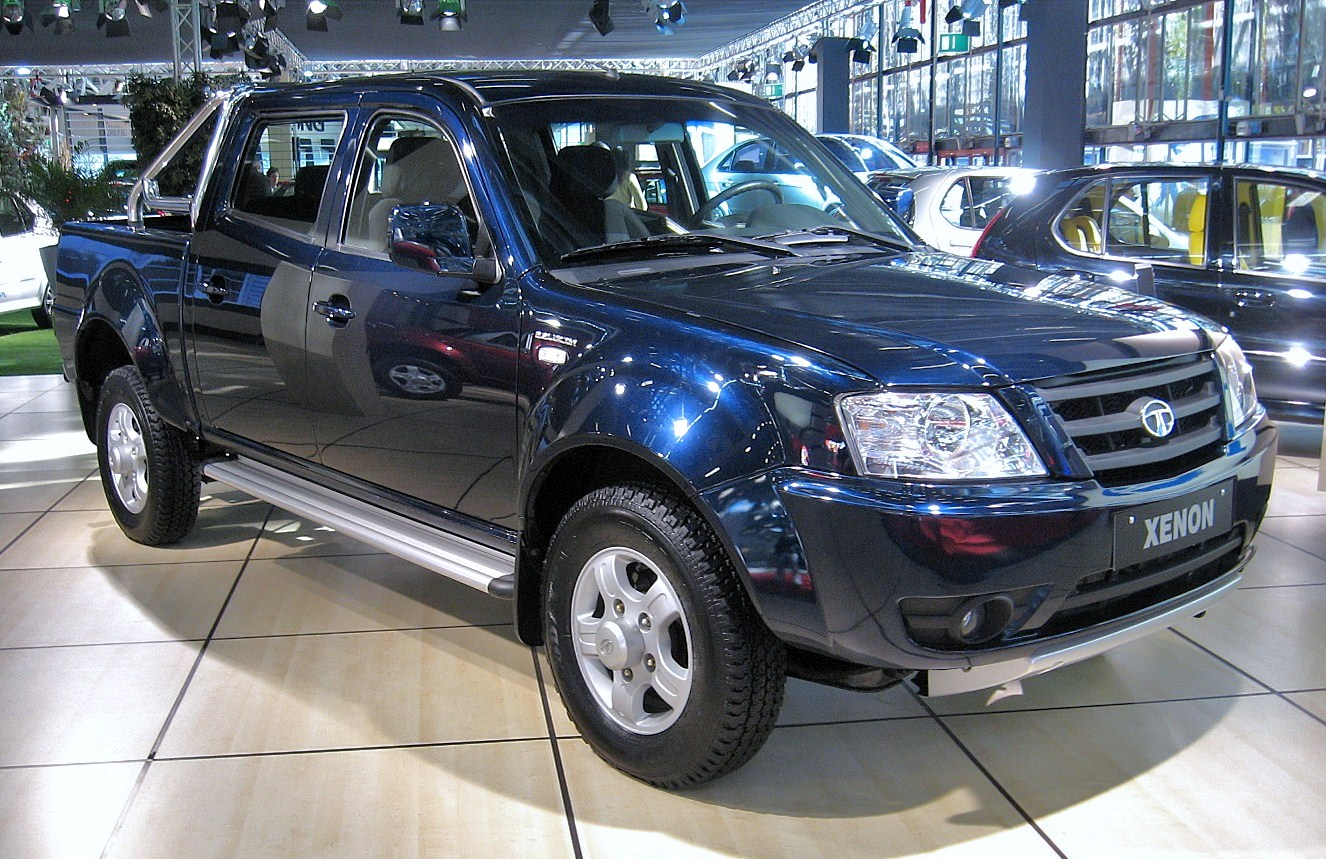 Subject:Tata Xenon Author:Luc106 Date:December 13th, 2007 Event:Motor Show Bologna 2007 Place/Country: Bologna, Italy I release all rights in the public domain.